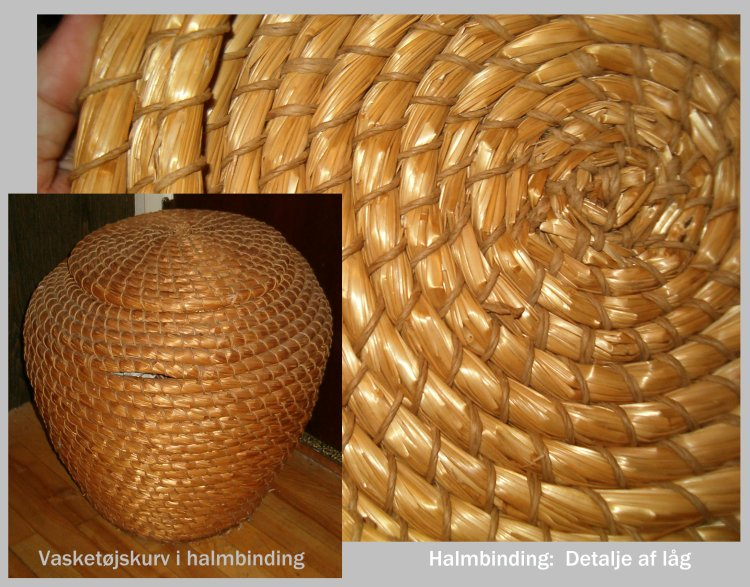 straw binding